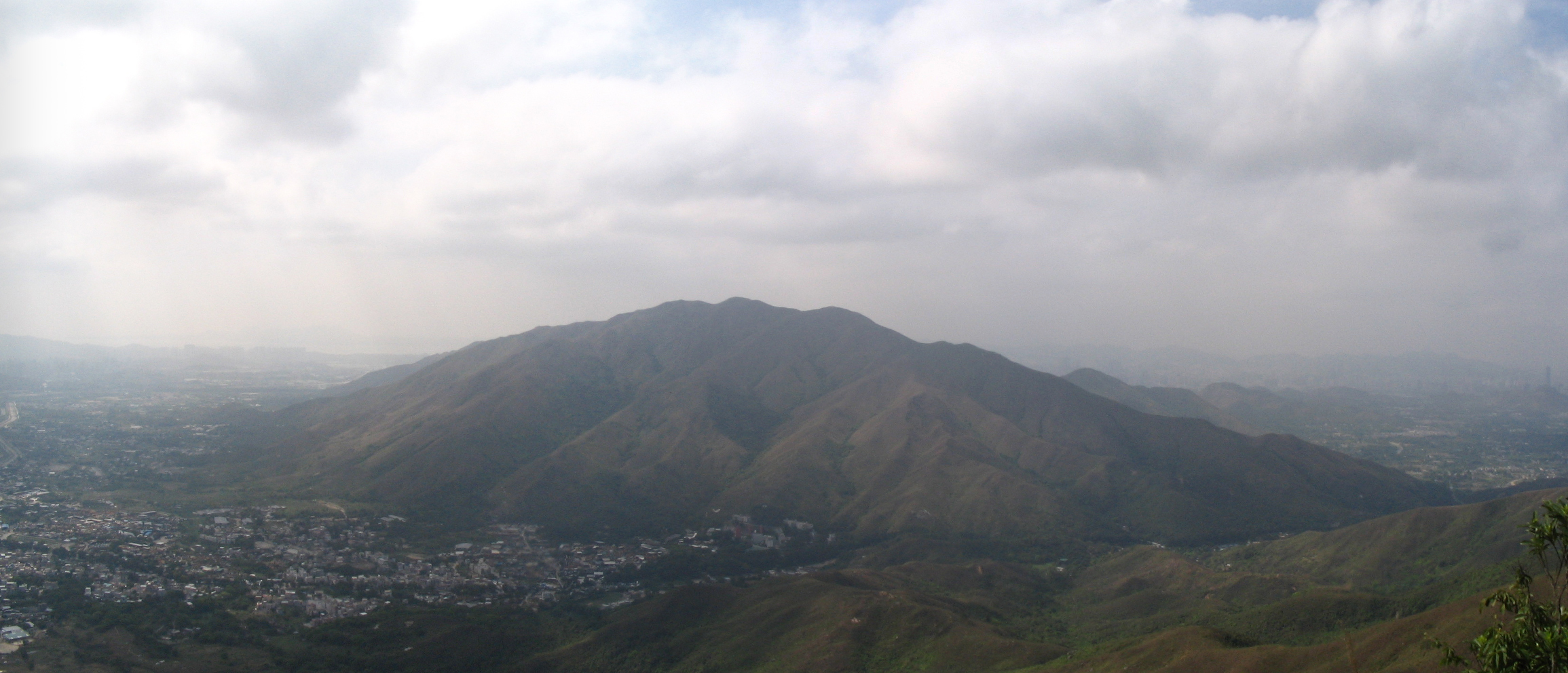 Panoramic photo of Kai Kung Leng, combined from 2390332164, 2389499195 and 2390334252